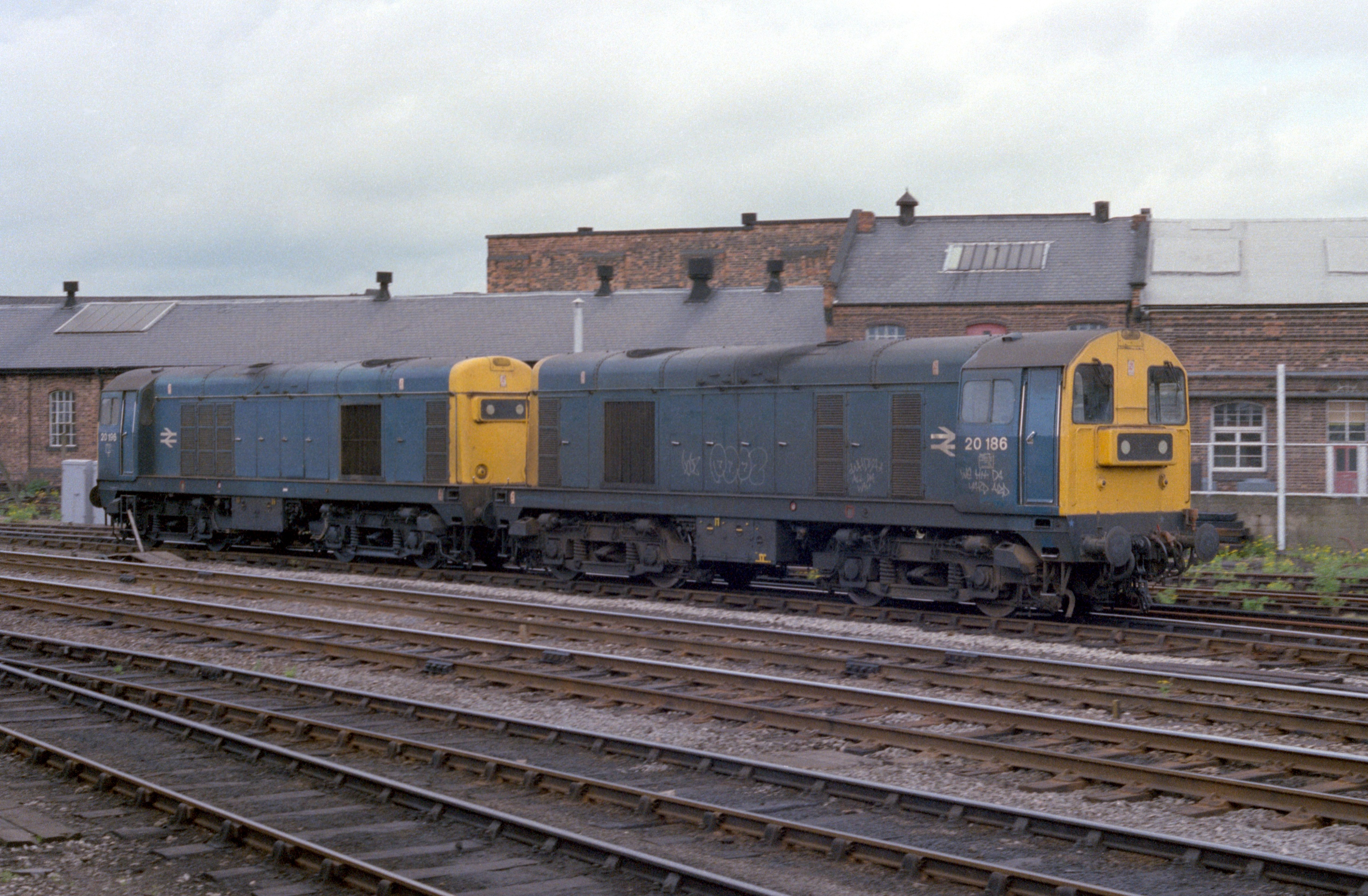 20196 & 20186 at Derby on 11/05/87. Scanned from a Kodacolor Gold 100 colour negative.